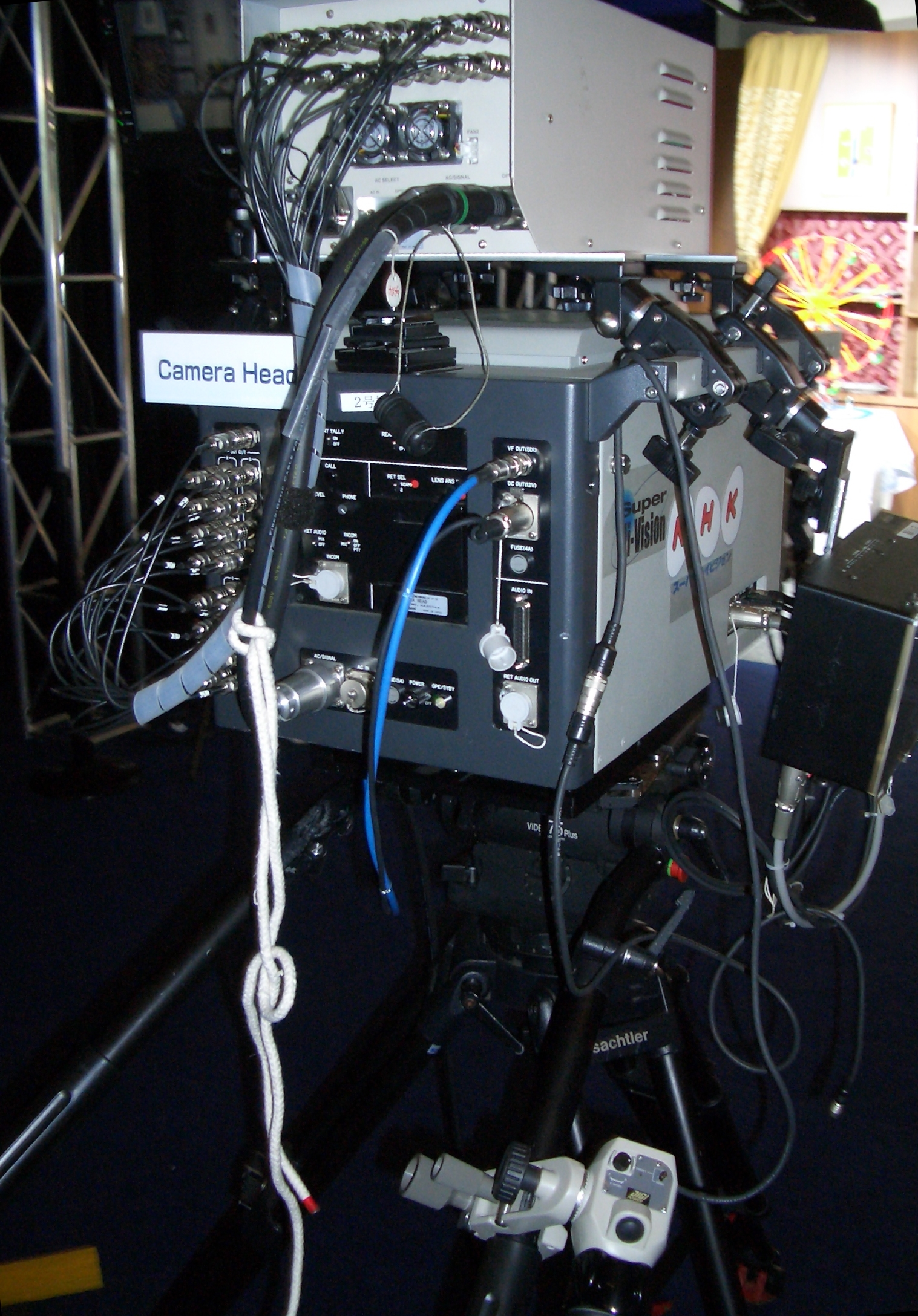 A protype NHK UHDTV camera